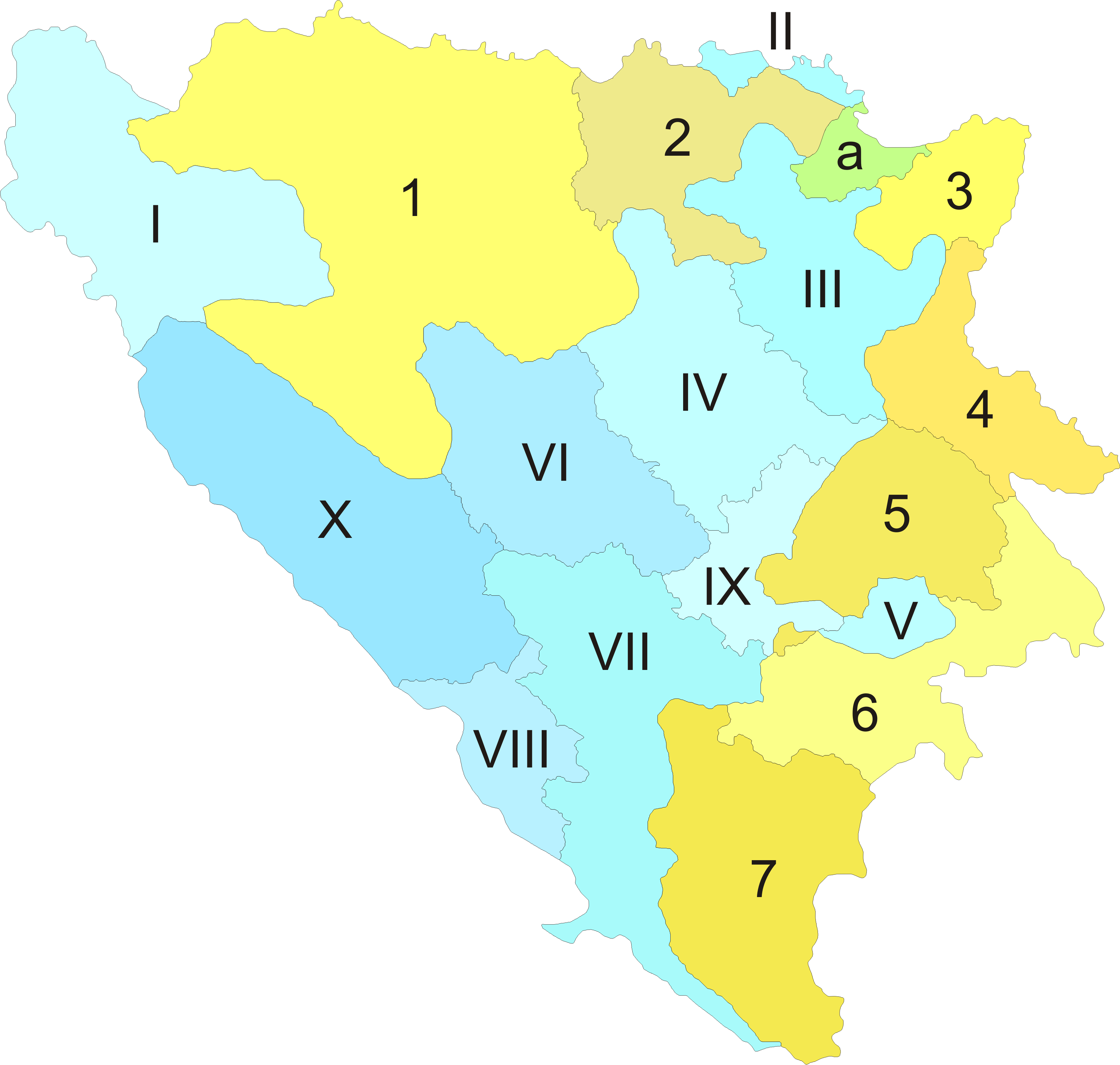 A map of the cantons (FBiH) and regions (RS) in Bosnia & Herzegovina.